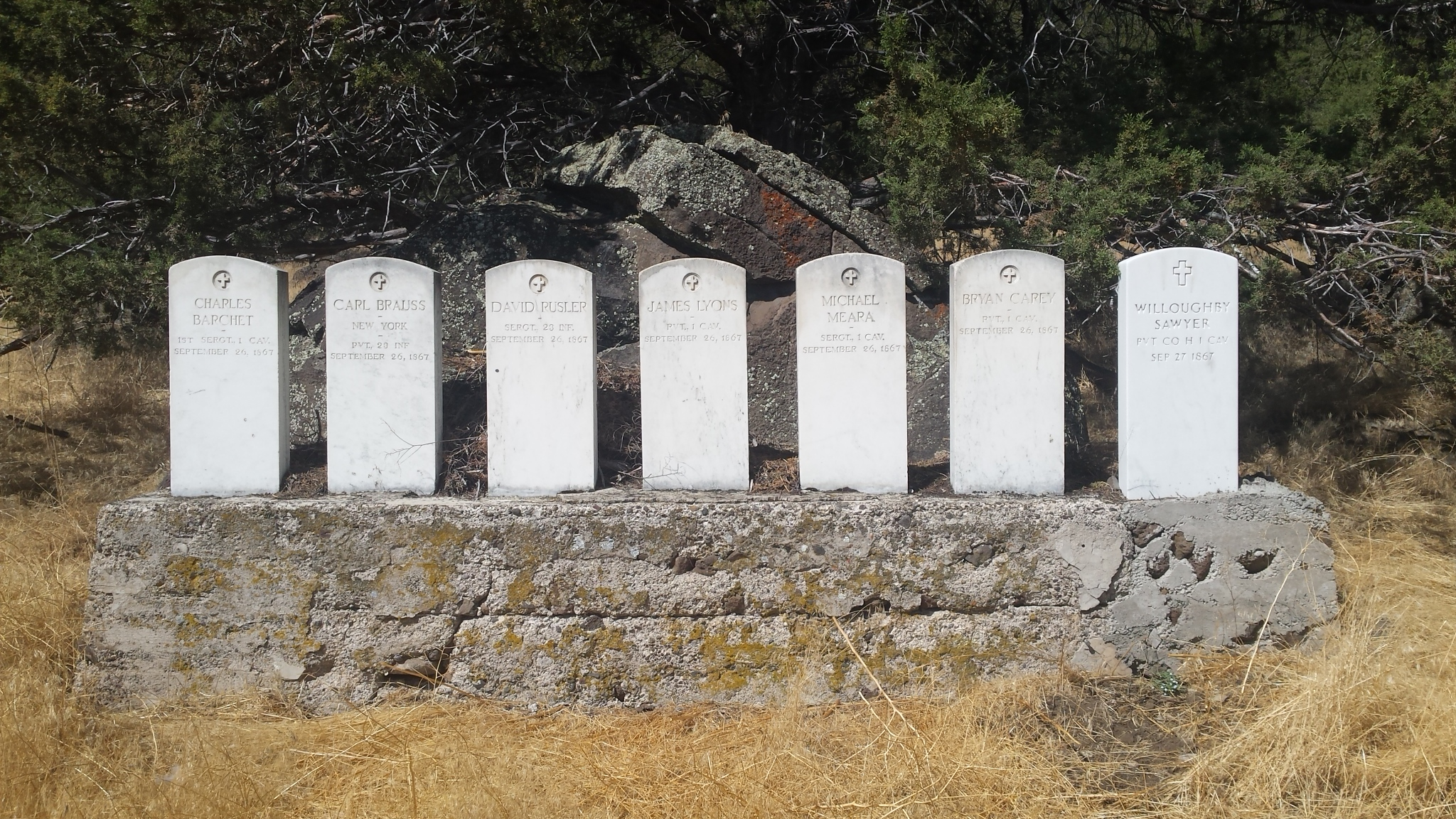 Infernal Caverns Battleground